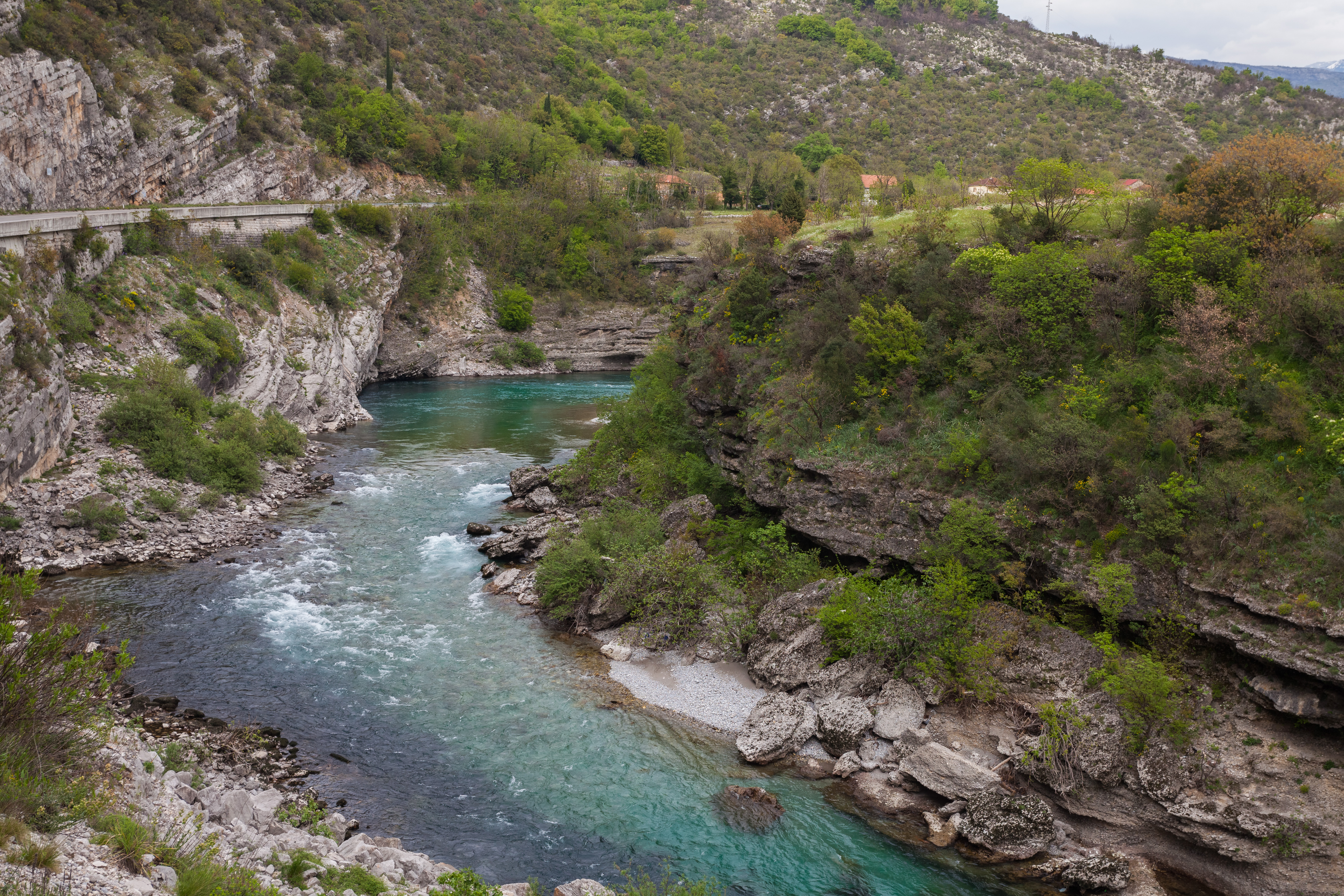 Moraca river, north of Podgorica, Montenegro